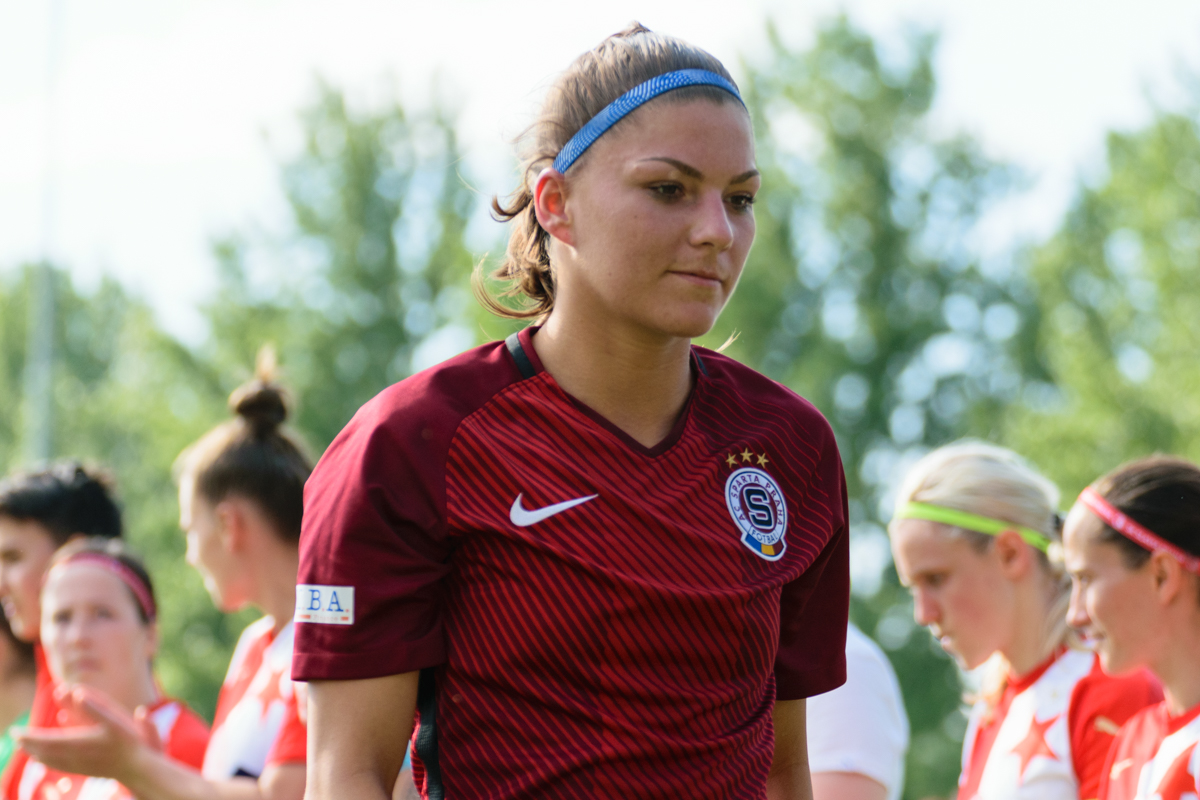 Markéta Ringelová after the Czech Cup final 2019